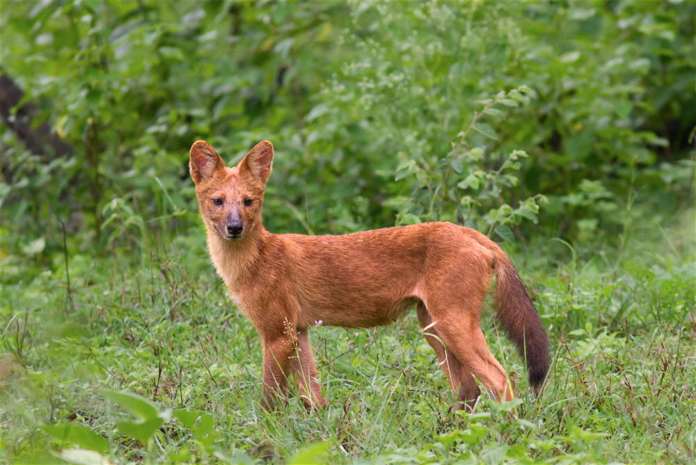 Asiatic wild dog (Cuon alpinus alpinus) Sub-adult